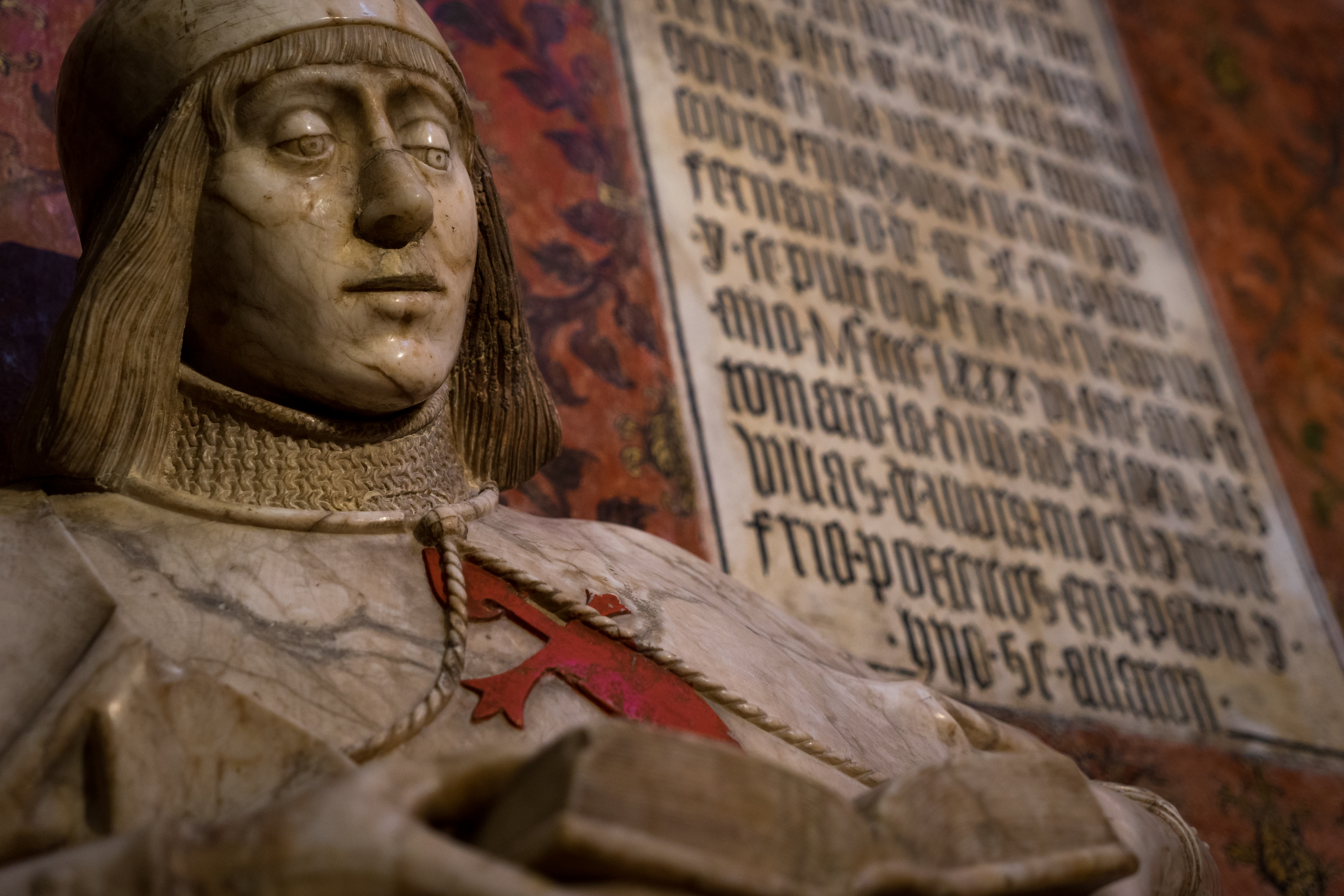 Sony Alpha a7 (ILCE-7) + Carl Zeiss Vario-Tessar T* FE 24-70mm f4 (SEL2470Z) @ 54mm f4 1/40s ISO-800